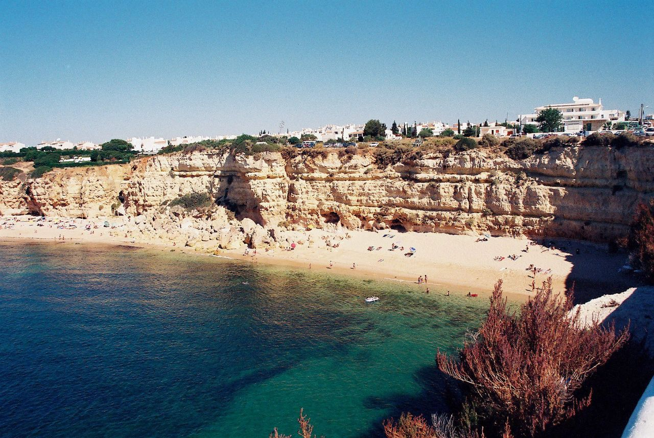 See where this picture was taken. [?]